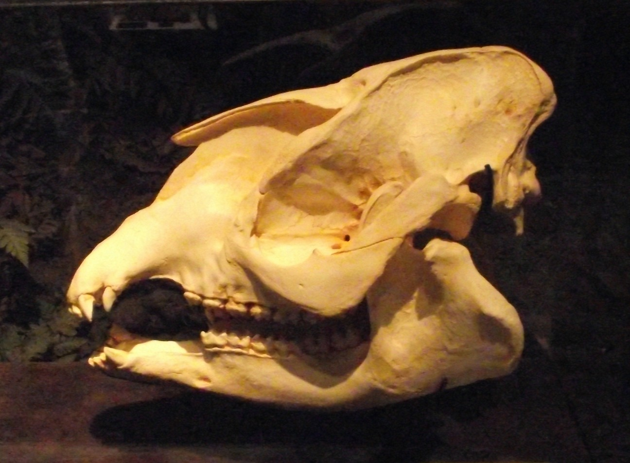 Skull cast of Tapirus bairdii. Photographed at the San Diego Natural History Museum, California, USA.